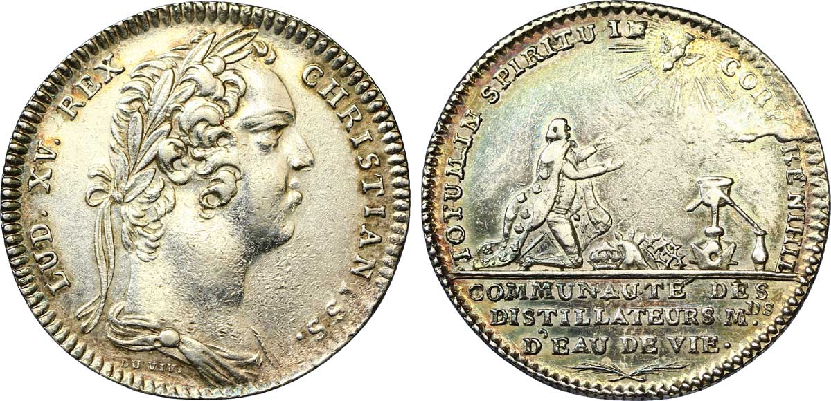 Jeton de la corporation de la communauté des distillateurs marchands d’eau de vie, émission de 1732. Il existe deux coins de revers pour cette corporation. Le premier chronologiquement se caractérise par deux palmes croisées en bas de l’exergue du revers. La distillation de l'eau-de-vie a été faite pendant longtemps par les vinaigriers et les épiciers apothicaires. En 1624, le droit de faire des eaux-de-vie est formée en spécialité distincte tandis que les vinaigriers et apothicaires continuent d'avoir le droit de distillation. En 1639, le métier passe sous la juridiction de la Cour des monnaies sous prétexte de fabrications d'acides pouvant altérer les monnaies. Vers 1676, la corporation compte environ 250 maîtres avec les limonadiers. La devise du revers est strictement liée à la corporation des distillateurs (F. 5078-5085).